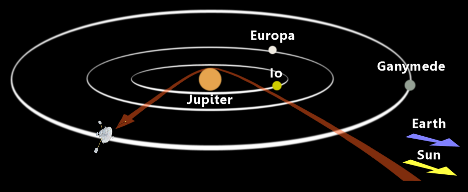 Trajectory of Pioneer 10 through the Jovian system